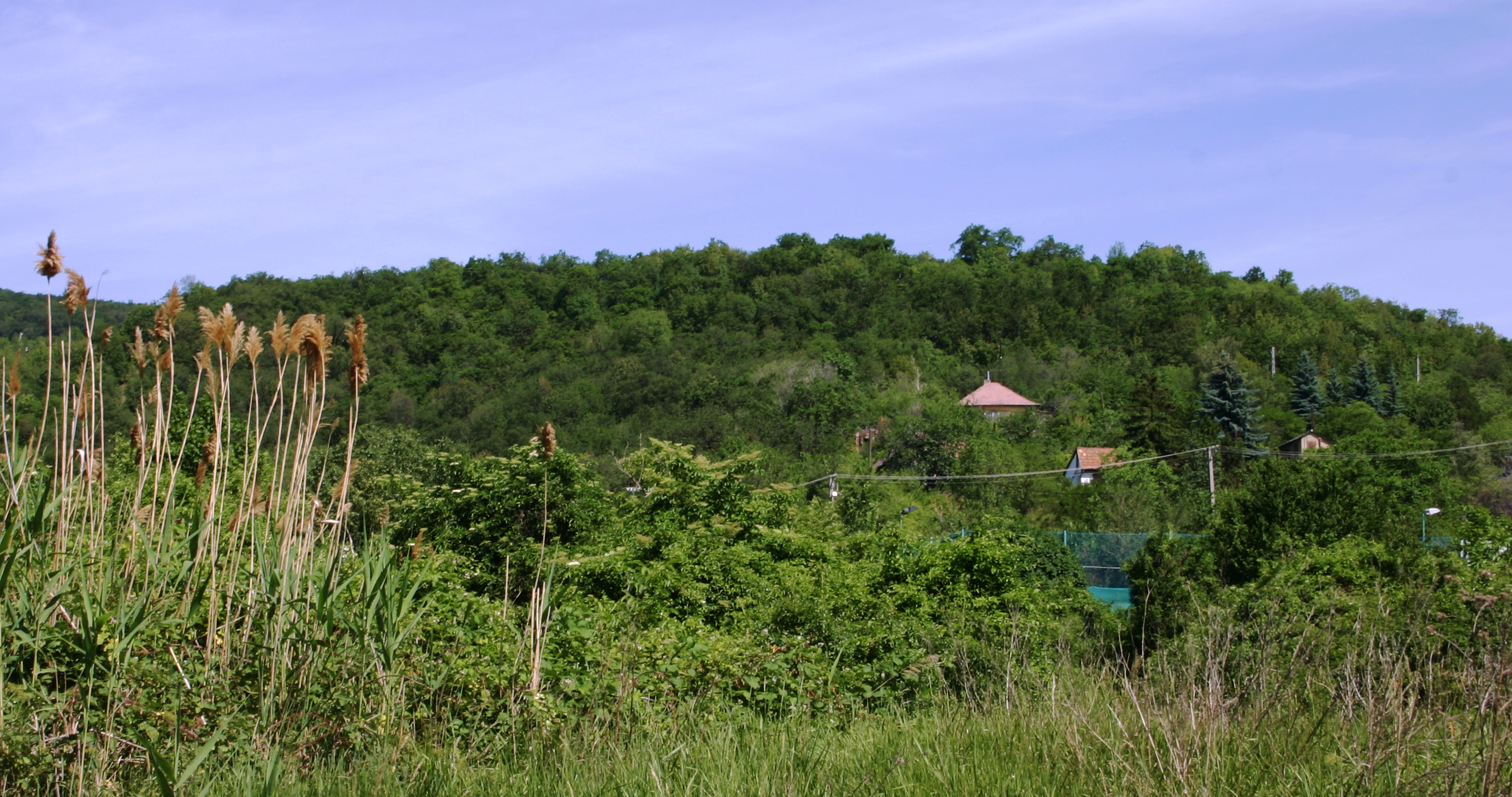 Rupp Hill in Budapest District XI, Hungary (nature reserve)